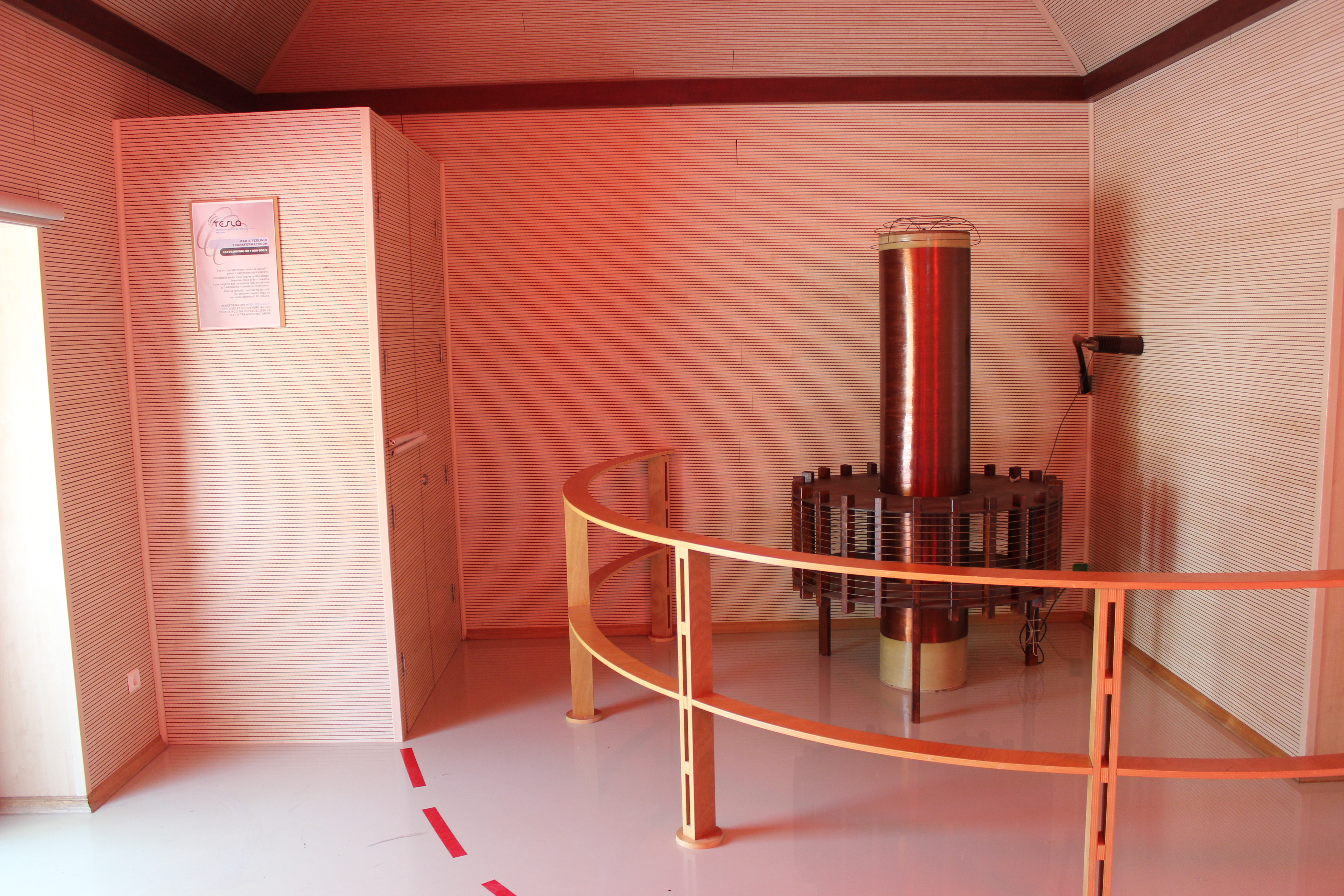 Tesla transformer, also known as Tesla coil. (Nikola Tesla Memorial Center, Smiljan, Croatia).